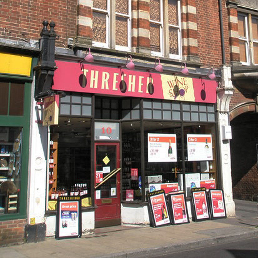 Threshers in Chapel Street